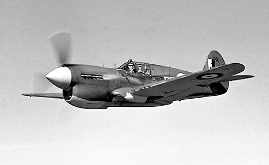 Curtiss 87A Kittyhawk